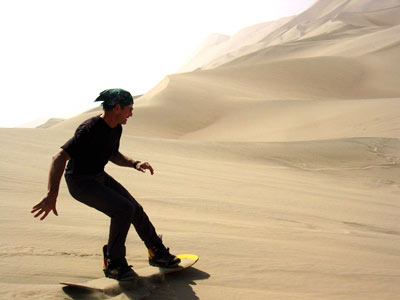 Some dunes are suitable for dune-boarding.